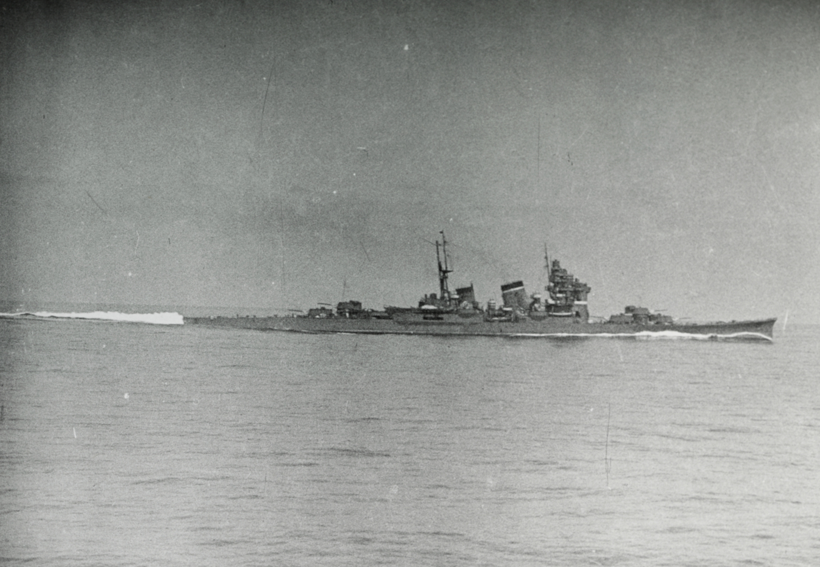 Japanese heavy cruiser Myōkō underway, 1937.